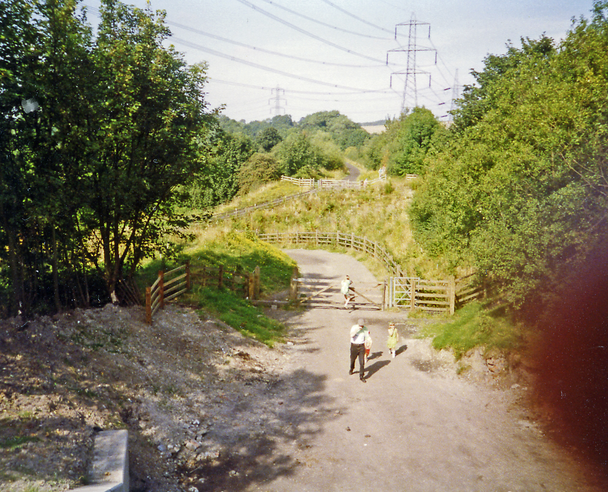 Site of former Renishaw Central station, 1993. View northward from the A618 Sheffield - Ollerton road, towards Sheffield - [? on the Trans-Pennine Trail]. The station had been on the ex-GCR Sheffield - Nottingham - Leicester - London main line, closed 5/9/66. It was called Eckington & Renishaw until 25/9/50 and closed to passengers 4/3/63, to goods 12/6/65. What a contrast with the Old Days - 50+ years ago!